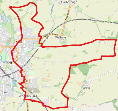 Map of the East Retford East ward of Bassetlaw. This map may be incomplete, and may contain errors. Don't rely solely on it for navigation.